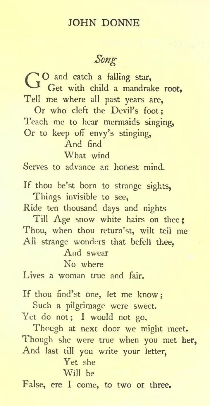 The poem Song / Go and catch a falling star, from the anthology "The Oxford Book of English Verse" (available on Wikisource)